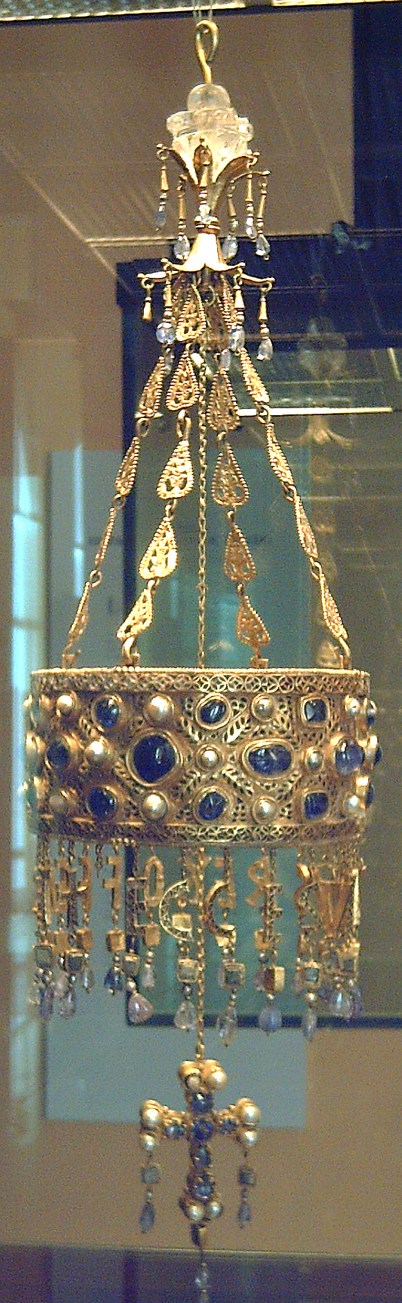 Votive crown of Visigoth king Reccesuinth († 672). Made of gold and precious stones. It's part of the so-called Treasure of Guarrazar.